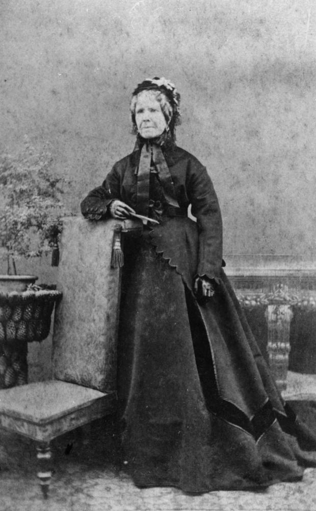 Mrs Stuart Russell. Studio portrait of Mrs Stuart Russell, mother of Henry Stuart Russell. (Description supplied with photograph) Note the pot plant stand with pine cones.